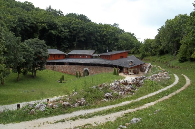 Vörös-tói (Red Lake) Visitors Center of Baradla Cave